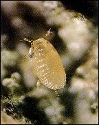 Beech scale nymph, about 0.3 mm long